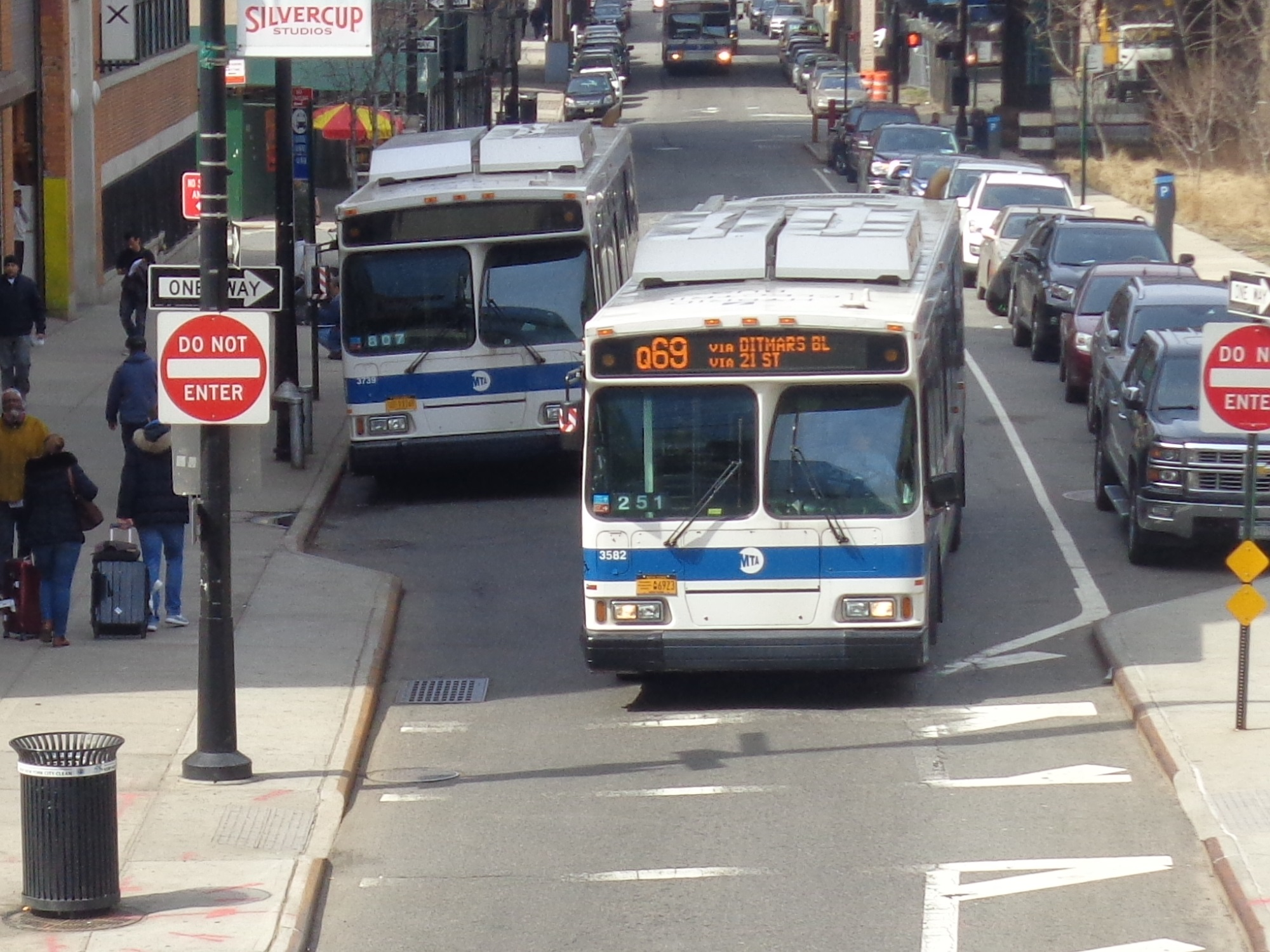 A Queens Plaza-bound Q69 bus (right) at Queens Plaza South and Crescent Street in Long Island City, Queens.